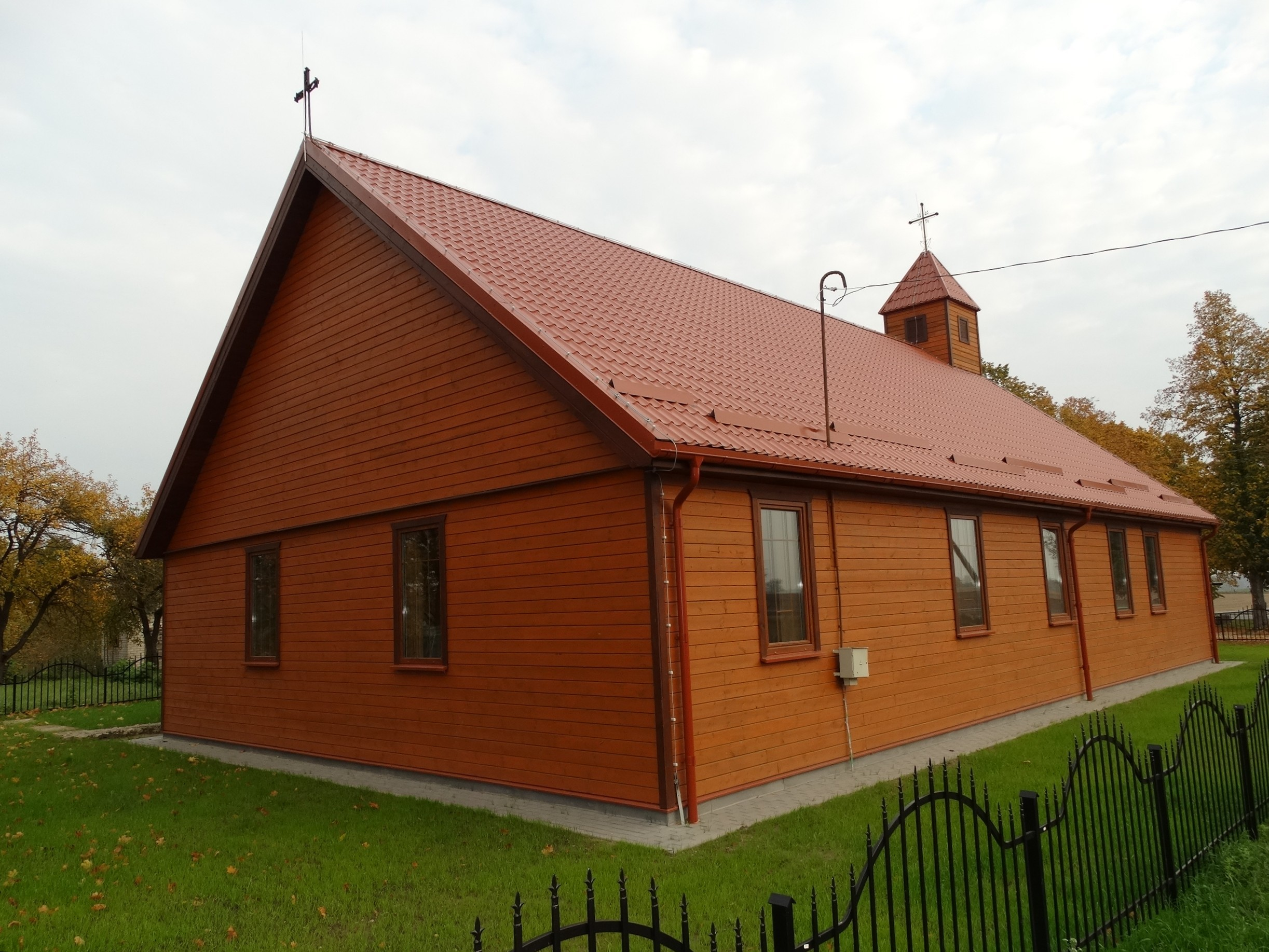 Mindaugai Catholic Church, Kamšai, Kalvarija Municipality, Lithuania